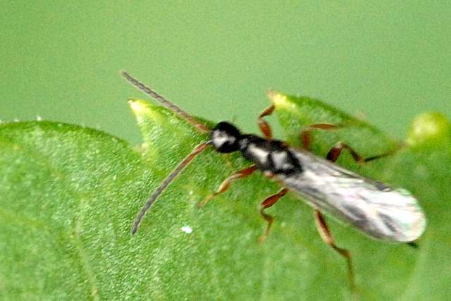 Blacus paganus from Commanster, Belgian High Ardennes .